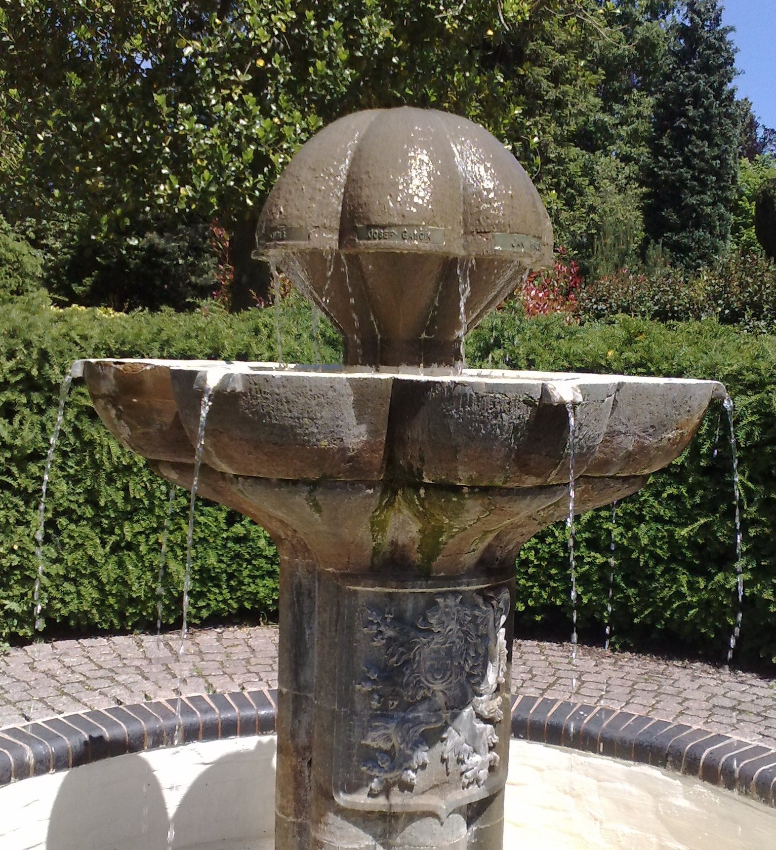 Fountain in memory of the Czechoslovak parachutists, in Jephson Gardens, Leamington Spa, England.